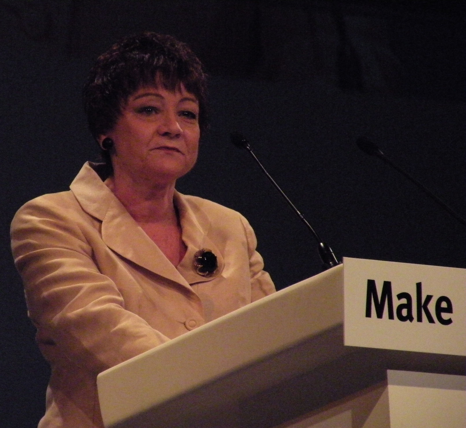 Sarah Ludford MEP addressing a Liberal Democrat conference in the Bournemouth International Centre